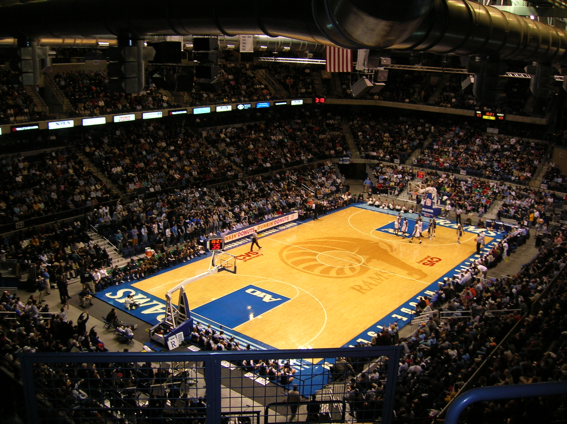 Ryan Center Men's basketball game.